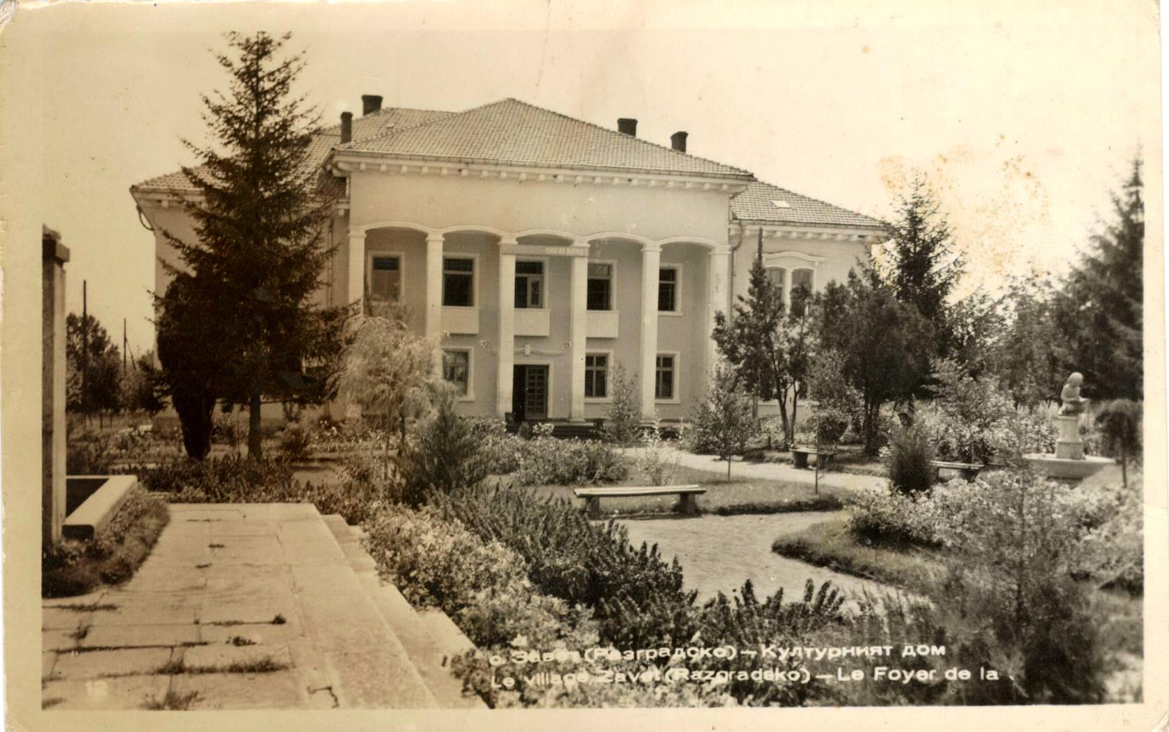 The House of culture in Zavet, Razgrad province in 1960s.